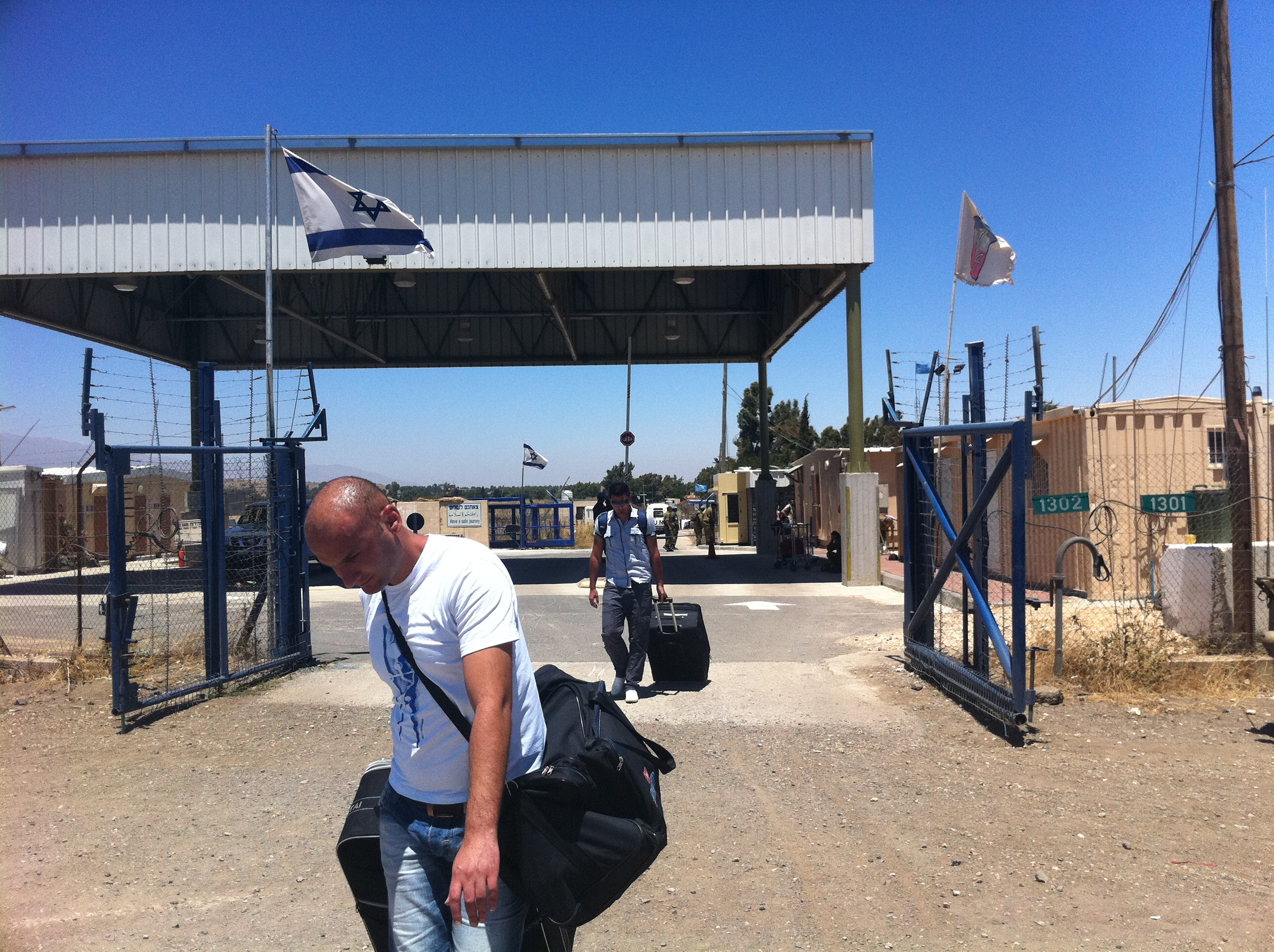 July 5, 2011 Today at 9:30 AM, 233 students traveled from Syria to Israel via the Quneitra Crossing, along the Israeli-Syrian border. Throughout the year, Israeli Druze students studying in Syria use their semester breaks to visit their families living in Israel. The crossing is coordinated by officials from the Northern Command along with UNDOF and the Ministry of Defense.